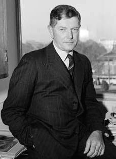 Sir Frank Macfarlance Burnet, cropped